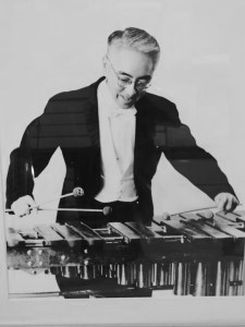 Xylophone Player Yoichi Hiraoka